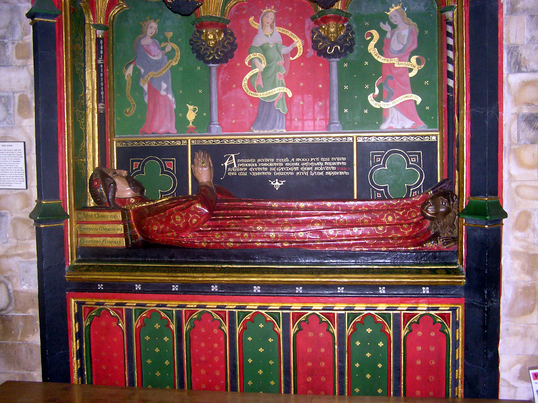 The tomb of John Gower in Southwark Cathedral, Southwark, London, England. The information notice about the tomb reads: This is the tomb of John Gower (d. 1408). Poet Laureate to Richard II and to Henry IV. Gower has been called “the first English poet” because, when most literary people wrote in French or Latin, he wrote also in English. He had a house and chapel within the precincts of the Augustinian Priory, (St. Mary Overie), to the north of this Cathedral Church. He left money for the founding of a chantry chapel in which he was buried. This chapel which stood on the north side of the nave was destroyed but the present tomb stands on or near the site on which it was originally built. The head of the effigy rests on three books. Gower wrote Vox Clamantis in Latin, Speculum Meditantis in French and Confessio Amantis in English. Photographed by Adrian Pingstone in June 2005 and placed in the public domain.